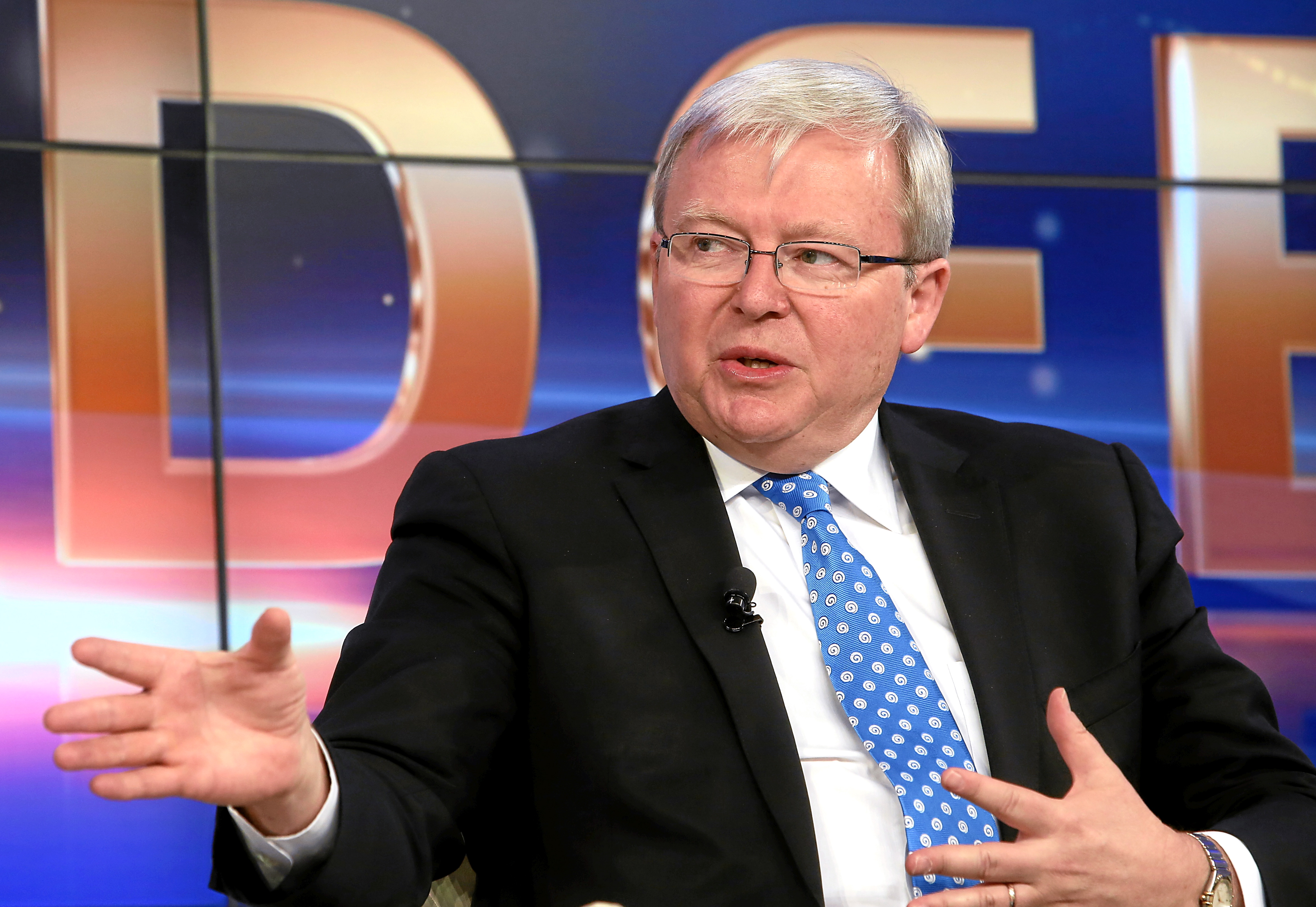 DAVOS/SWITZERLAND, 26JAN13 - Kevin Rudd, Member of Parliament, Australia, former Prime Minister and former Foreign Minister; Global Agenda Council on Fragile States, speaks during the Session 'China's Next Global Agenda' at the Annual Meeting 2013 of the World Economic Forum in Davos, Switzerland, January 26, 2013.. . Copyright by World Economic Forum. . Monika Flueckiger